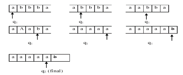 Abbba